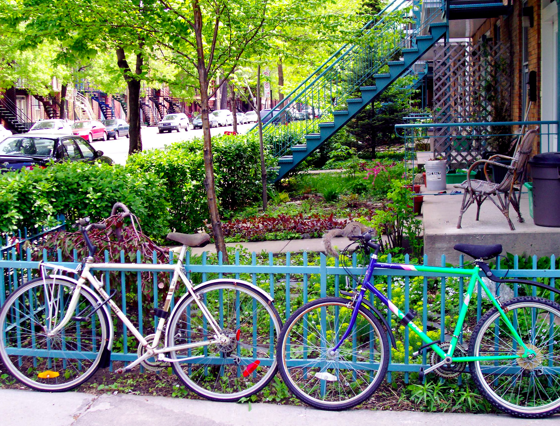 Author: Shawn Goldwater